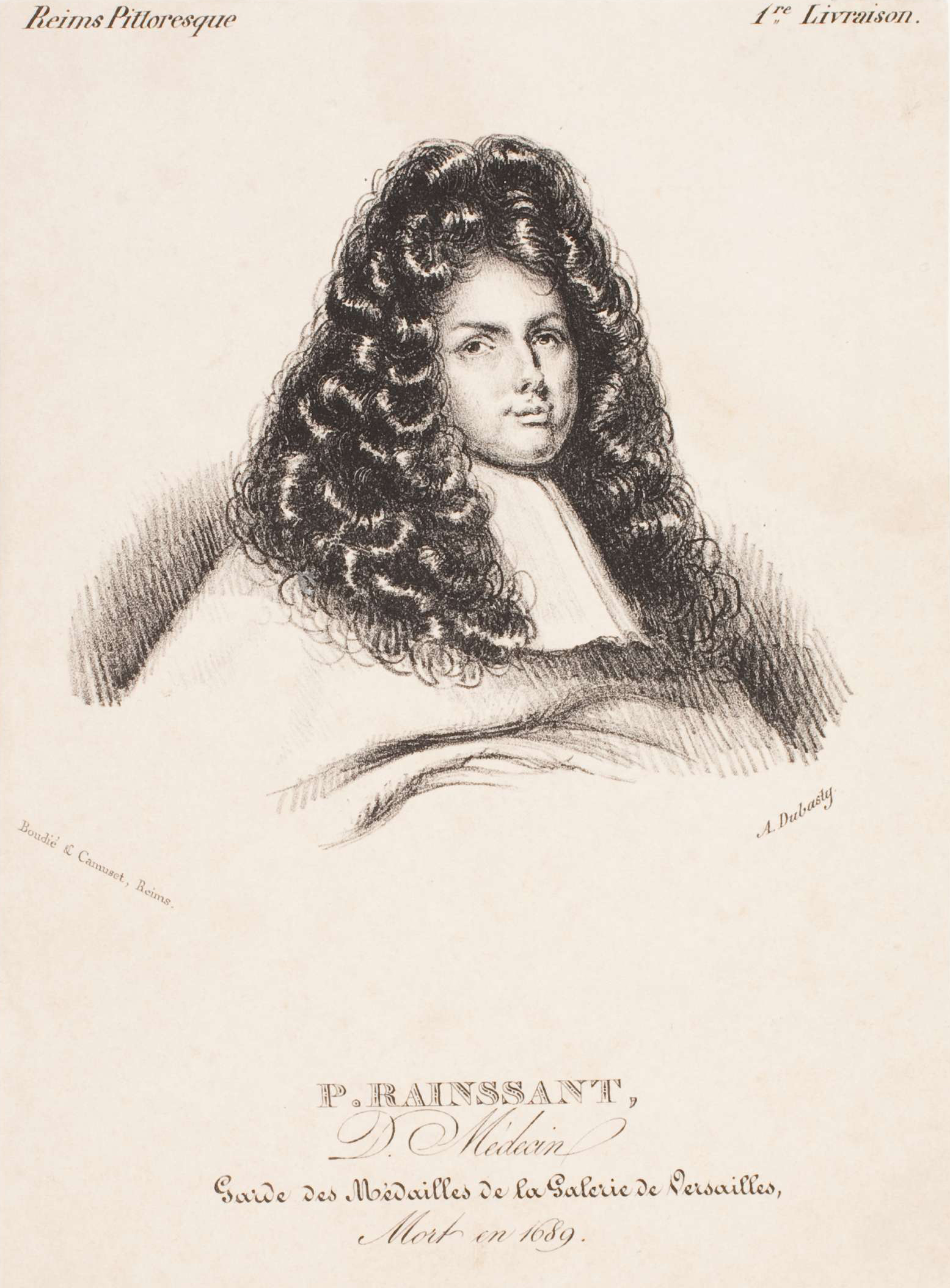 French numismatist and antiquarian Pierre Rainssant (1640-1689)